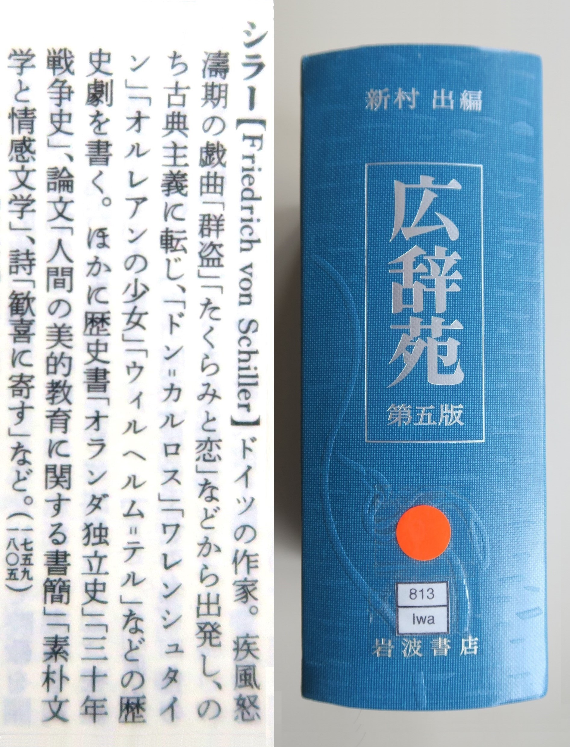 Iwanami Kōjien and an example of contents